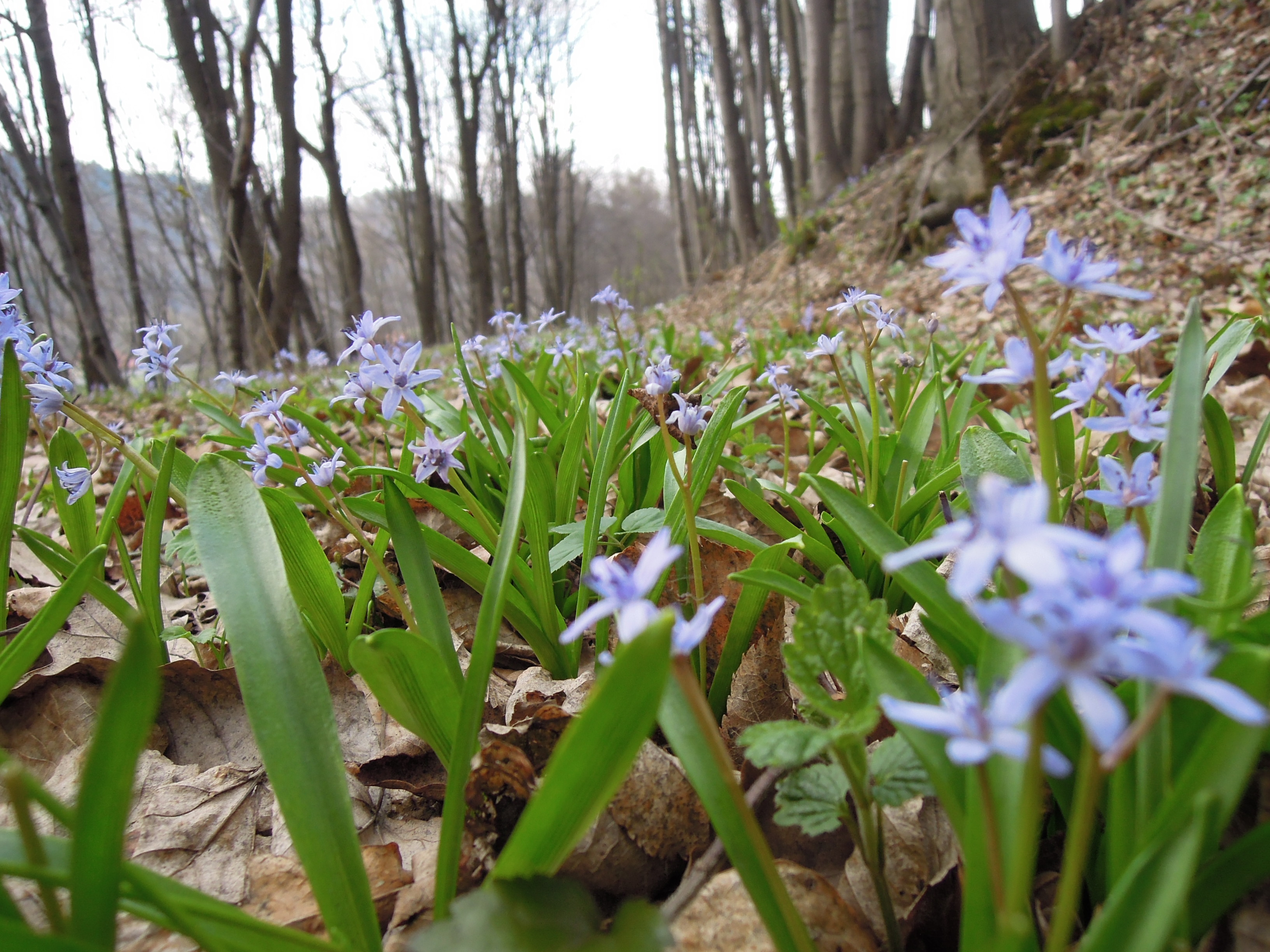 Scilla kladnii, U Vaňků natural monument, Bystřička, Vsetín District, Zlín Region, Czech Republic